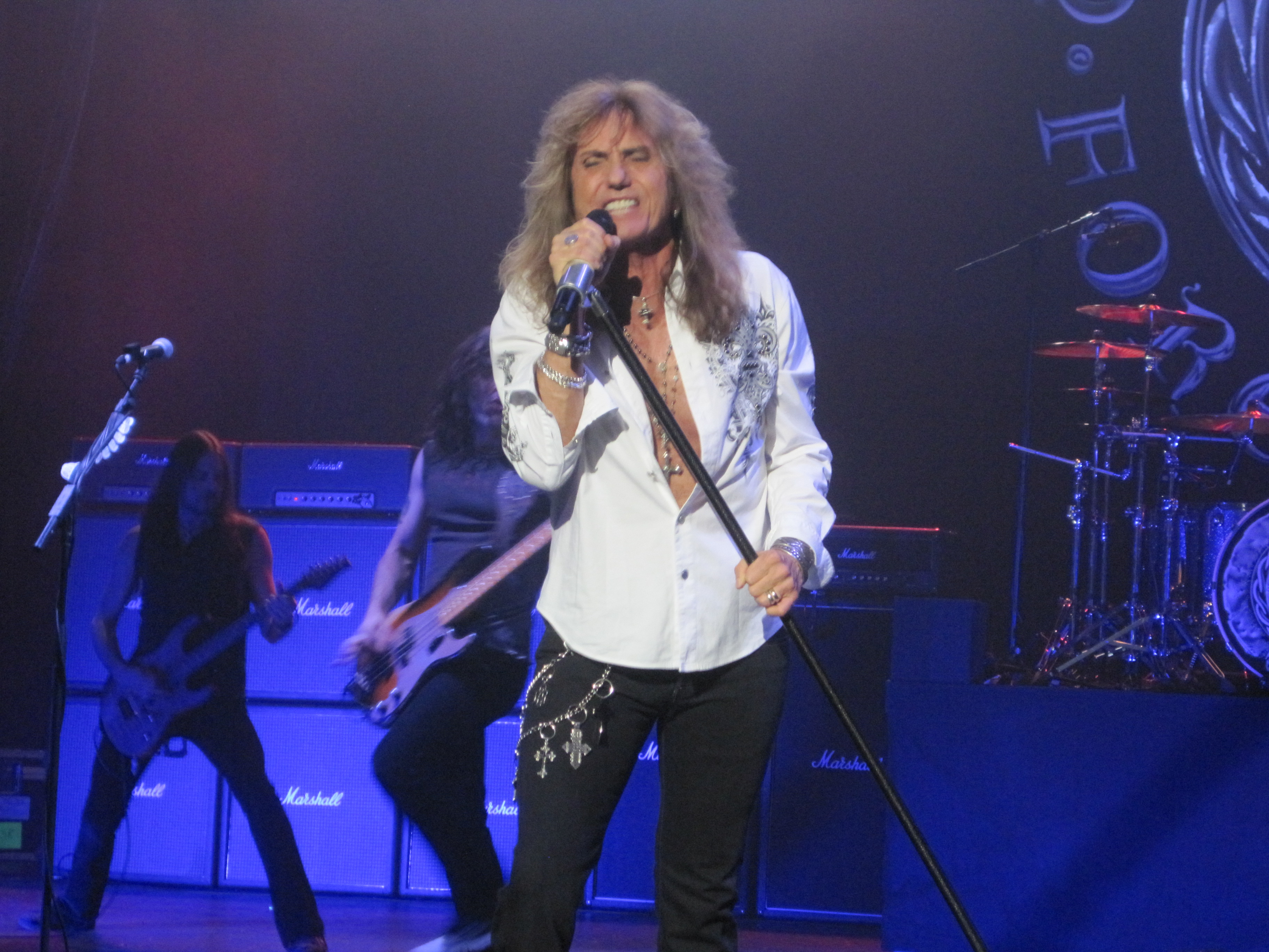 David Coverdale on stage at the Manchester Apollo, 17th June 2011